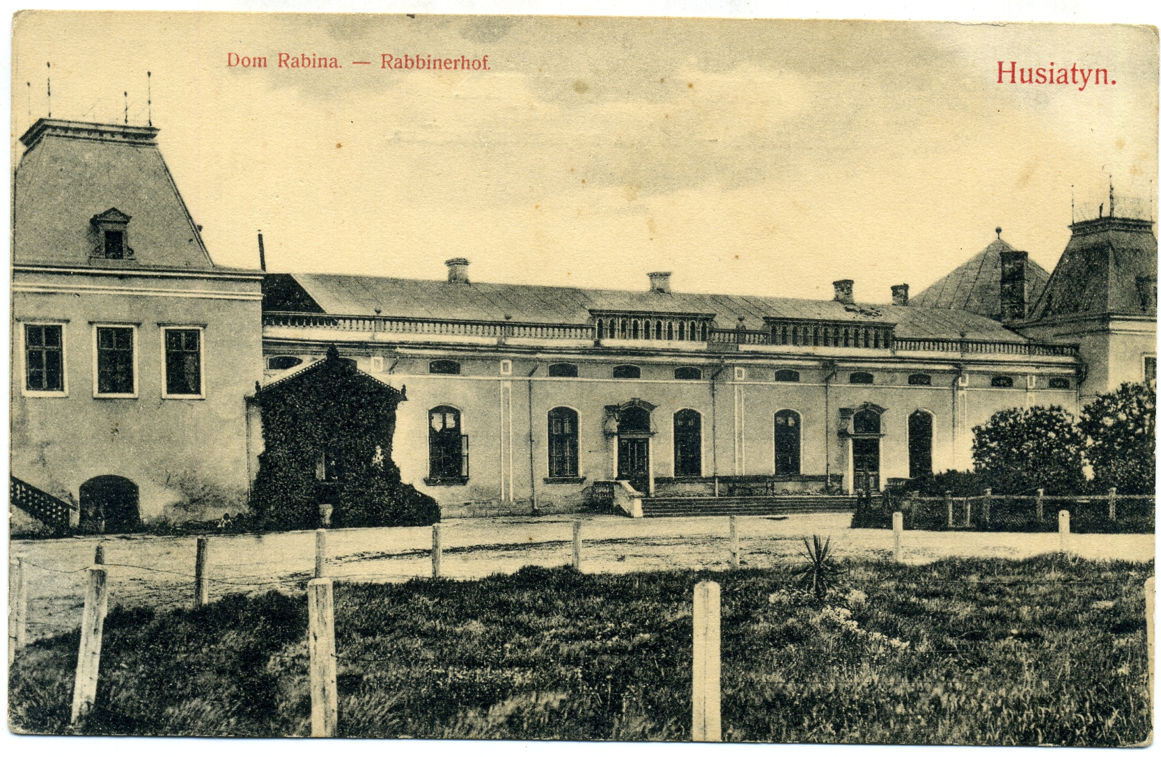 Manor of Rebbe in Husiatyn, Galizia; part of Tarnopol Voivodeship in the Second Polish Republic, today Husiantyn, Ukraine.